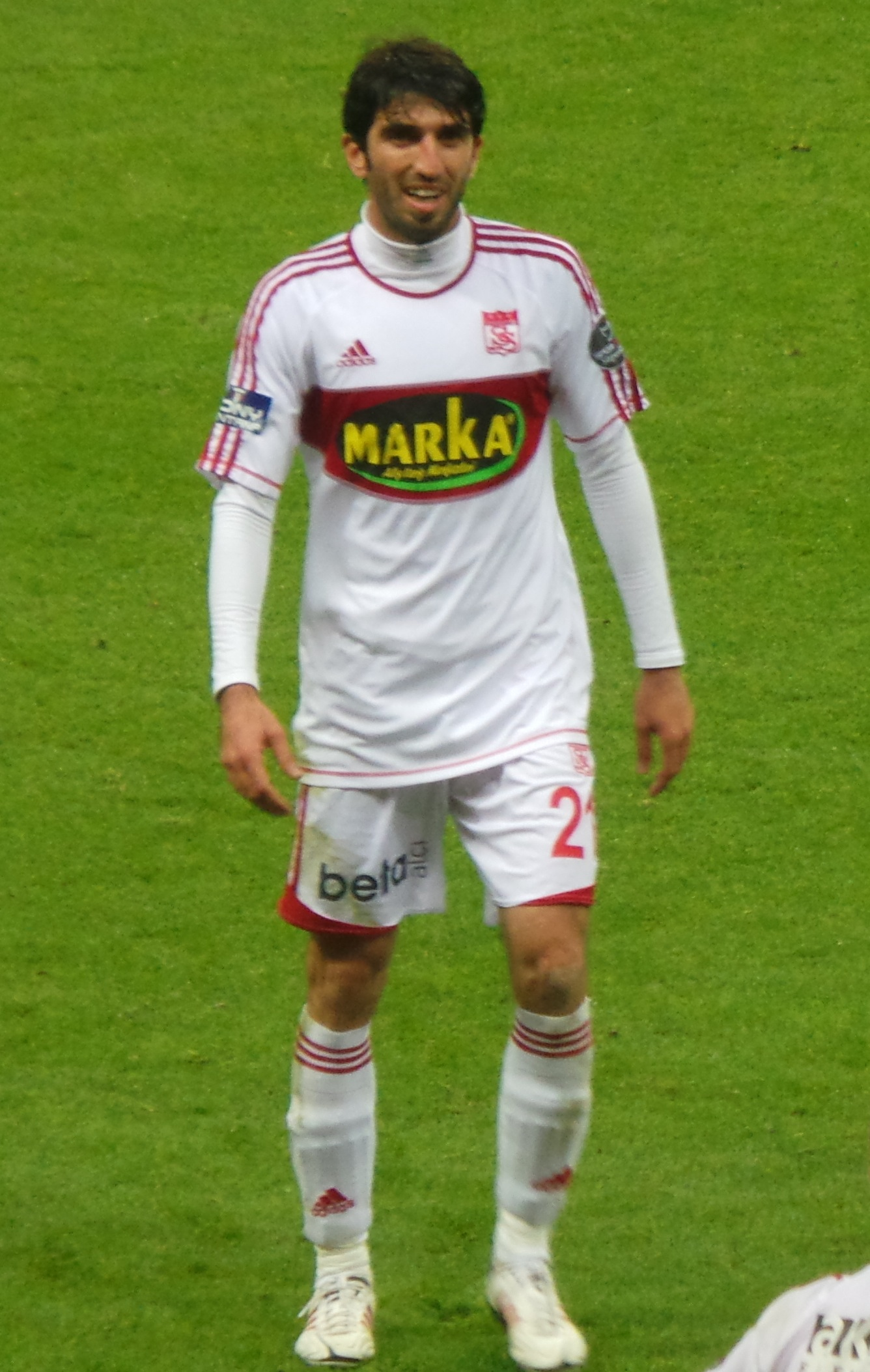 Burhan Eşer with Sivasspor